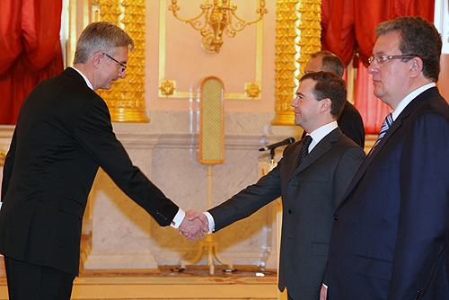 THE KREMLIN, MOSCOW. Presentation ceremony of foreign ambassadors’ letters of credentials. Ambassador of the Kingdom of Norway Knut Hauge presents his letter of credentials to the President.